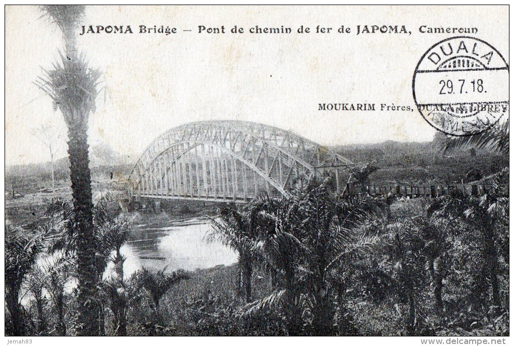 Postcard showing the Japoma Bridge in Cameroon, postmarked 1918.